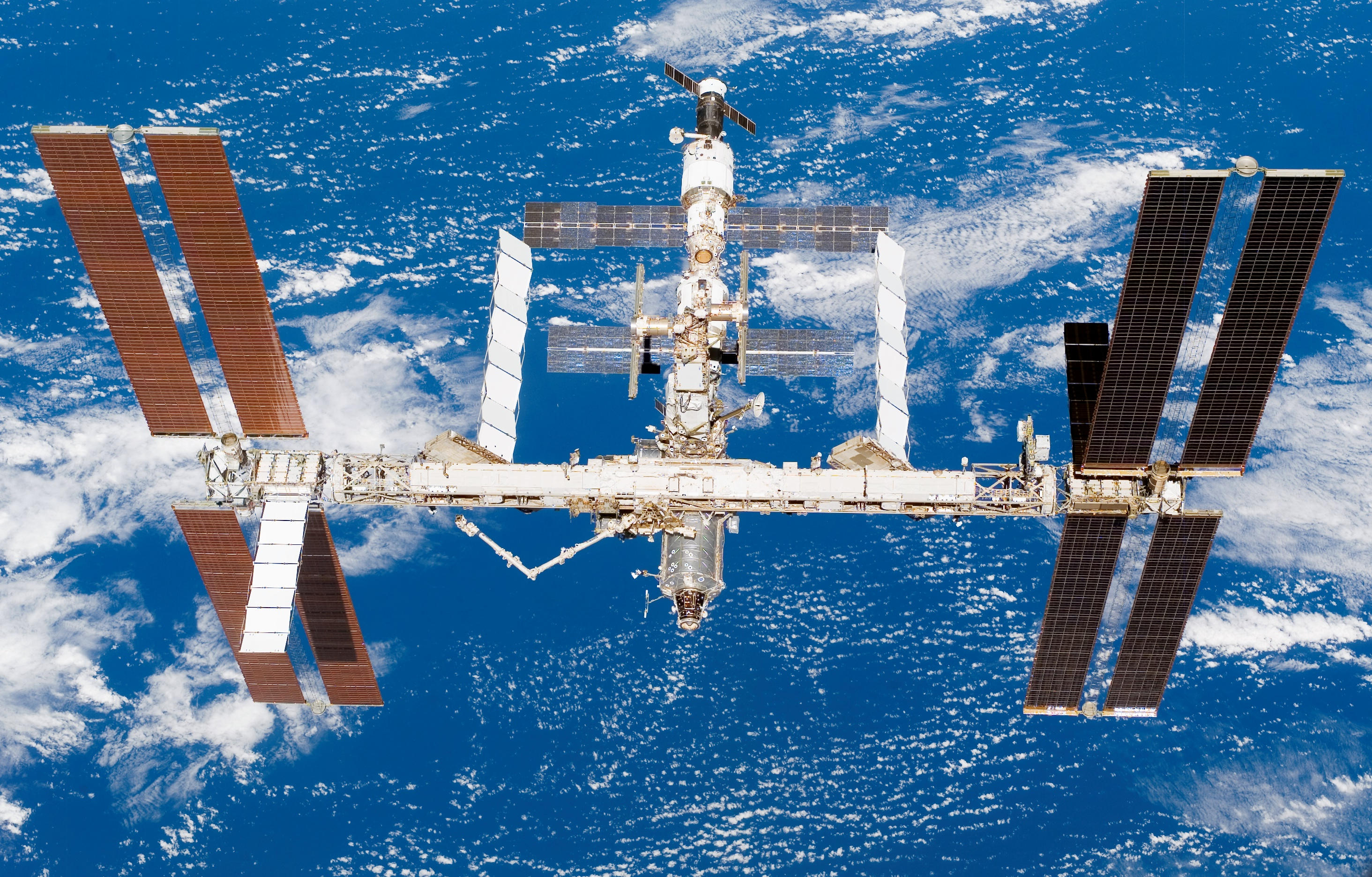 S118-E-09416 (19 Aug. 2007) --- Backdropped by a blue and white Earth, the International Space Station moves away from Space Shuttle Endeavour. Earlier the STS-118 and Expedition 15 crews concluded nearly nine days of cooperative work onboard the shuttle and station. Undocking of the two spacecraft occurred at 6:56 a.m. (CDT) on Aug. 19, 2007.